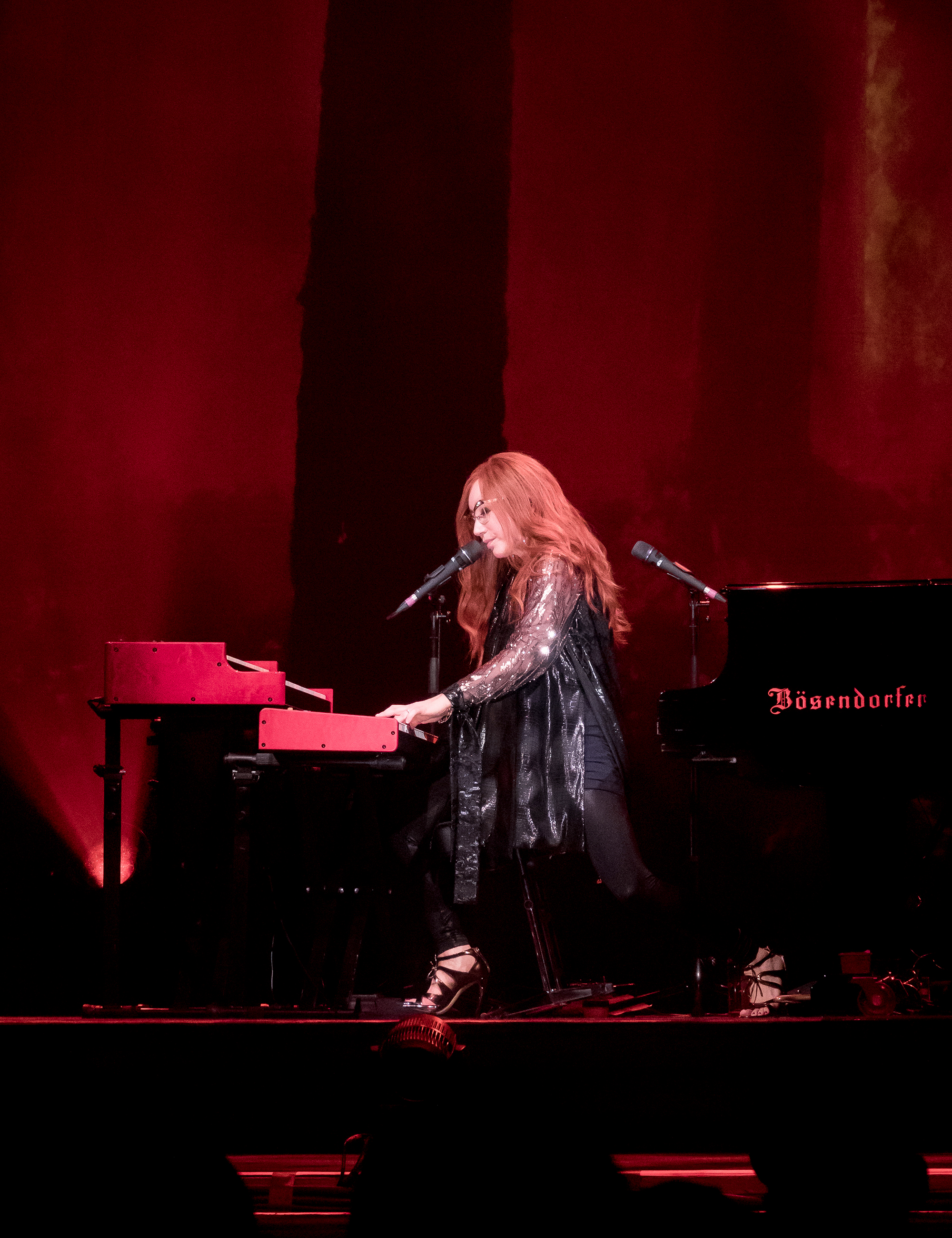 Tori Amos performing live at the Theatre at Ace Hotel in downtown Los Angeles, California, on Friday, December 1, 2017. This was the first of three sold out nights at this venue for Tori.